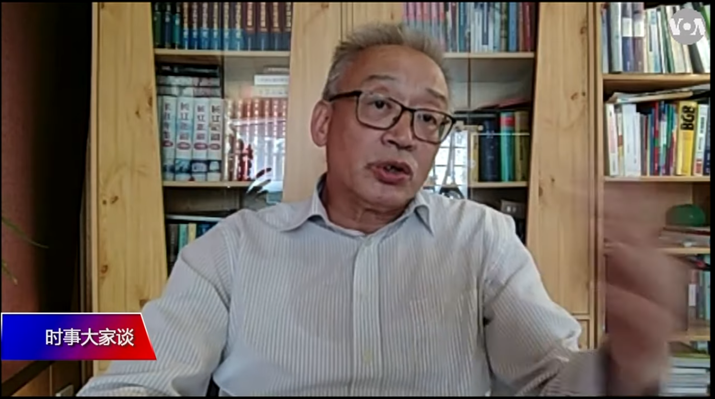 Interviewed by VOA in Germany, 11 July 2019.